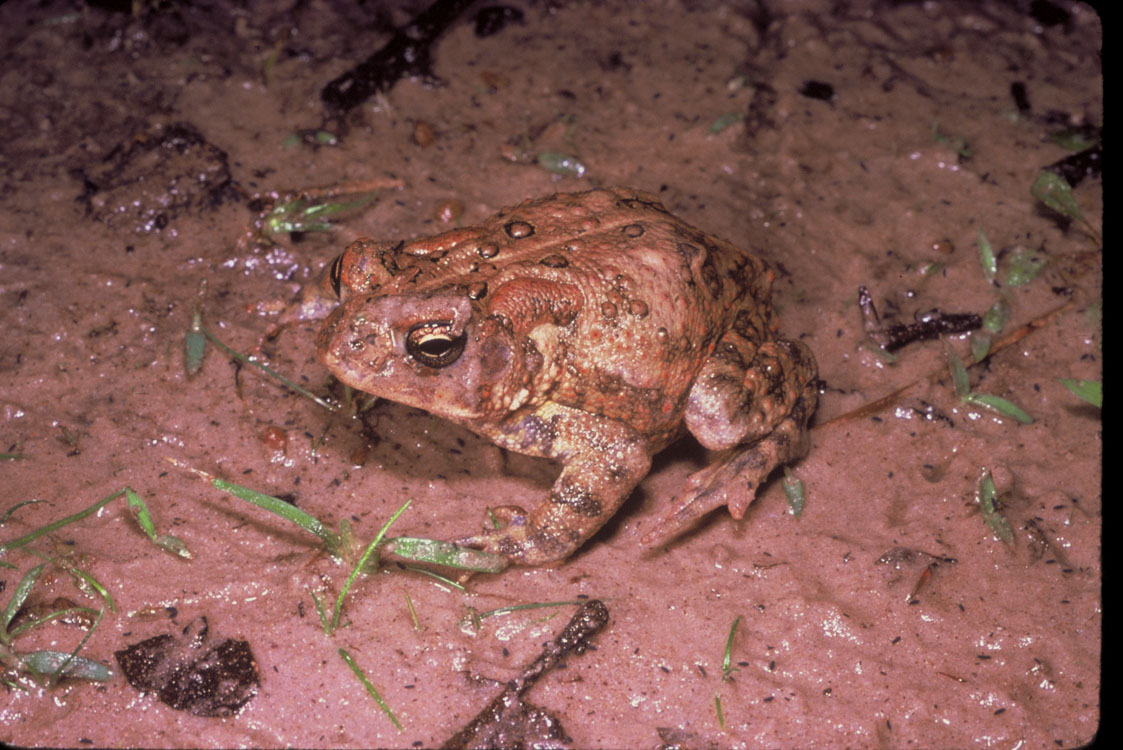 Houston toad Date: February, 2002 Source: U.S. Fish & Wildlife Service